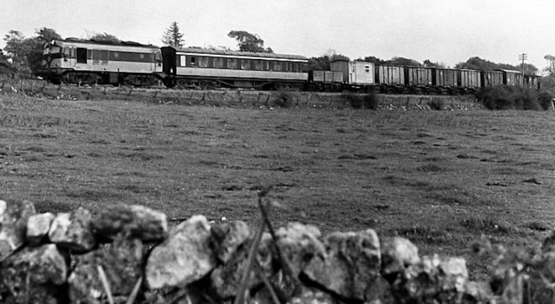 232 with one passenger coach, eight wagons and a brake van, near Lynchfort level crossing, with the 15.30 Loughrea – Attymon Jct mixed.